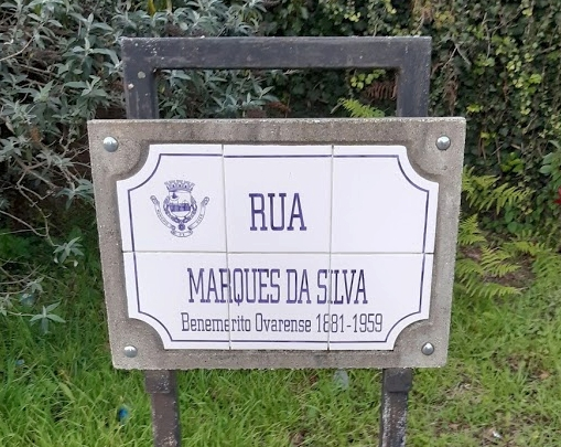 Marques da Silva Street sign, in Ovar.